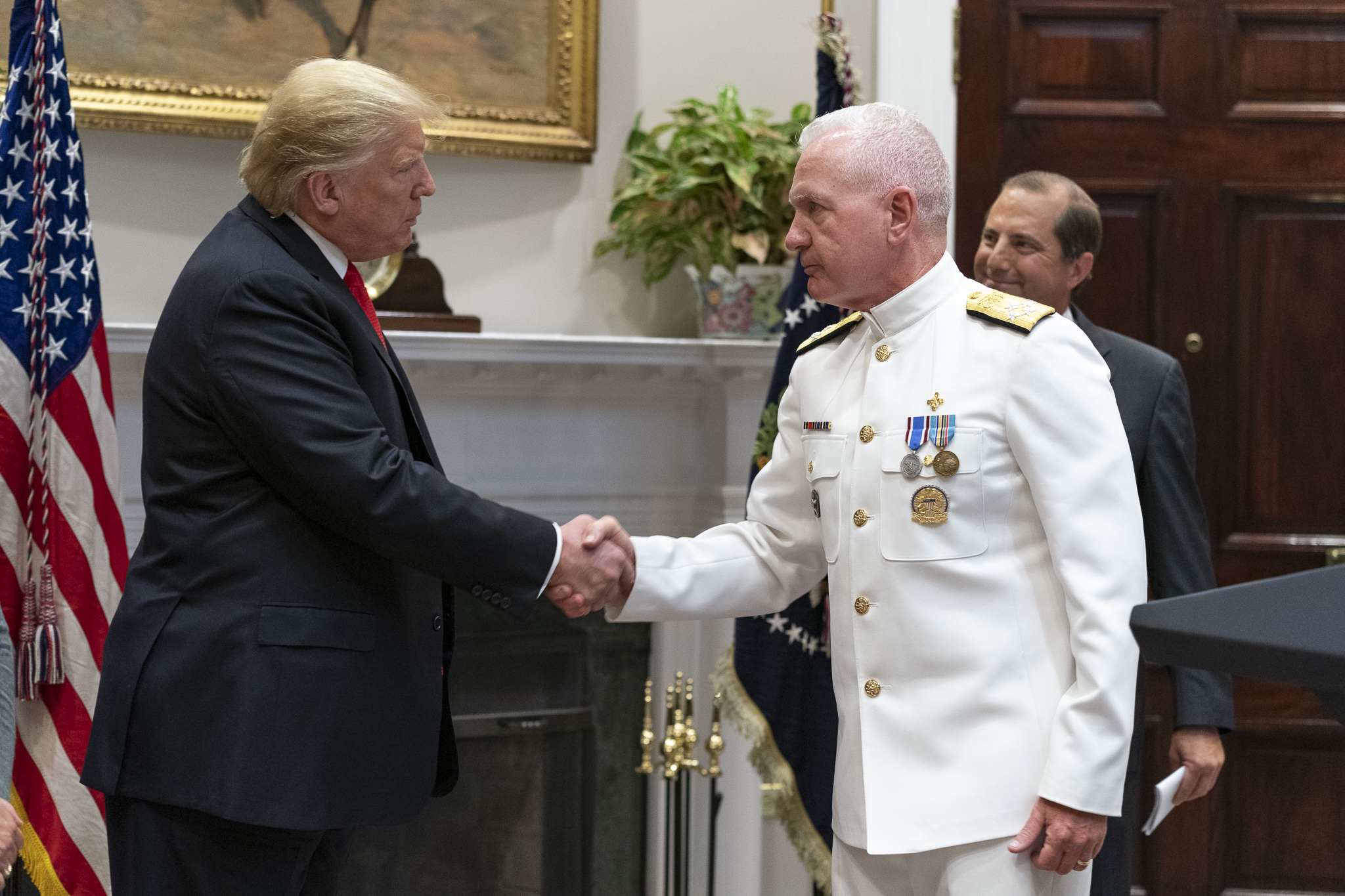 President Donald J. Trump, joined by Secretary of Health and Human Services Alex Azar, thanks Admiral Brett Giroir, Assistant Secretary for Health at HHS, for his remarks following the announcement of $1.8 billion in funding for State Opioid Response Grants Wednesday, Sept. 4, 2019, in the Roosevelt Room of the White House. (Official White House Photo by Shealah Craighead)